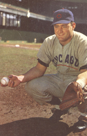 1953 Bowman Color baseball card of Harry Chiti of the Chicago Cubs #7. PD-not-renewed